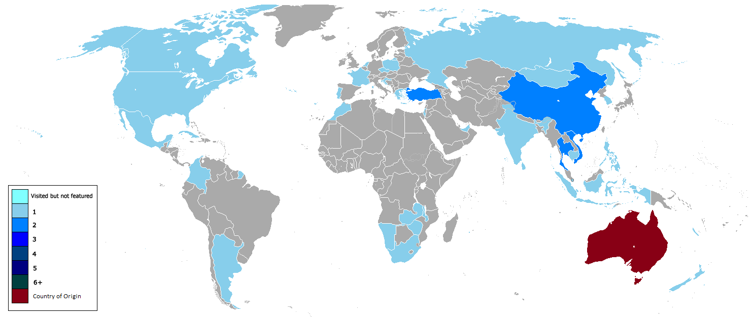 This is map showing the countries visited in The Amazing Race Australia.